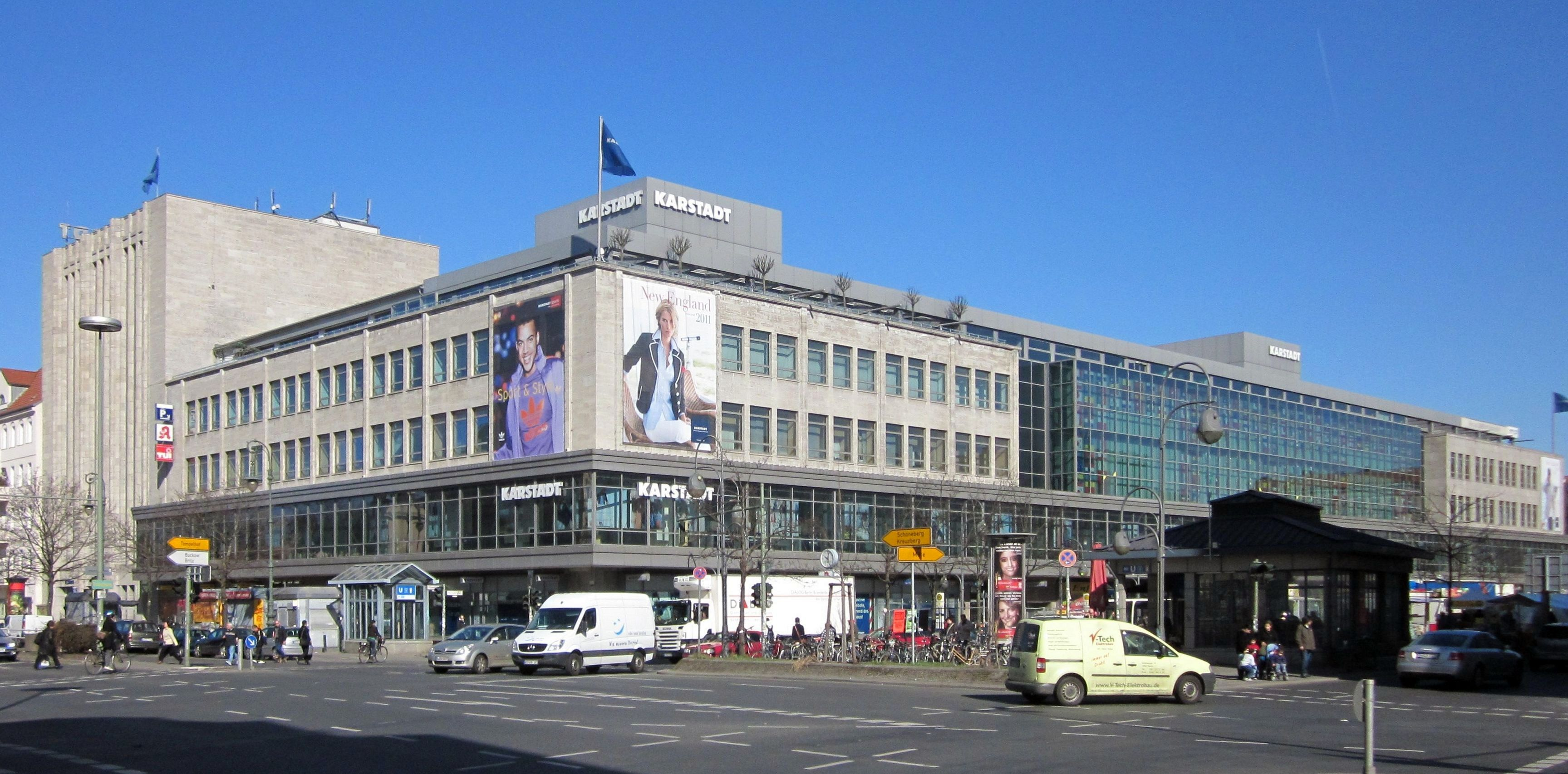 The department store Karstadt at Hermannplatz, Hasenheide No. 1-6 (on the left), in Berlin-Kreuzberg. The front to Hermannplatz is on the border to neighboring district Berlin-Neukölln. The large complex with another facade on Urbanstraße was built from 1927 to 1929 by Philipp Schäfer; it was largely destroyed in WWII. From 1951 to 1952, Alfred Busse directed the reconstruction with an altered outlook. The complex has been designated as a cultural heritage monument.